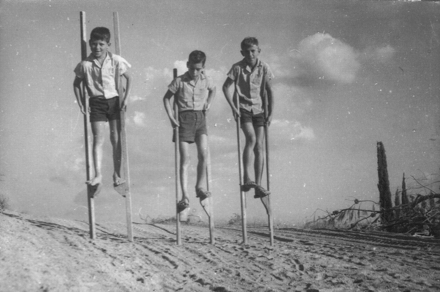 Children on stilts Kibbutz Sarid in the fields of the Jezreel Valley